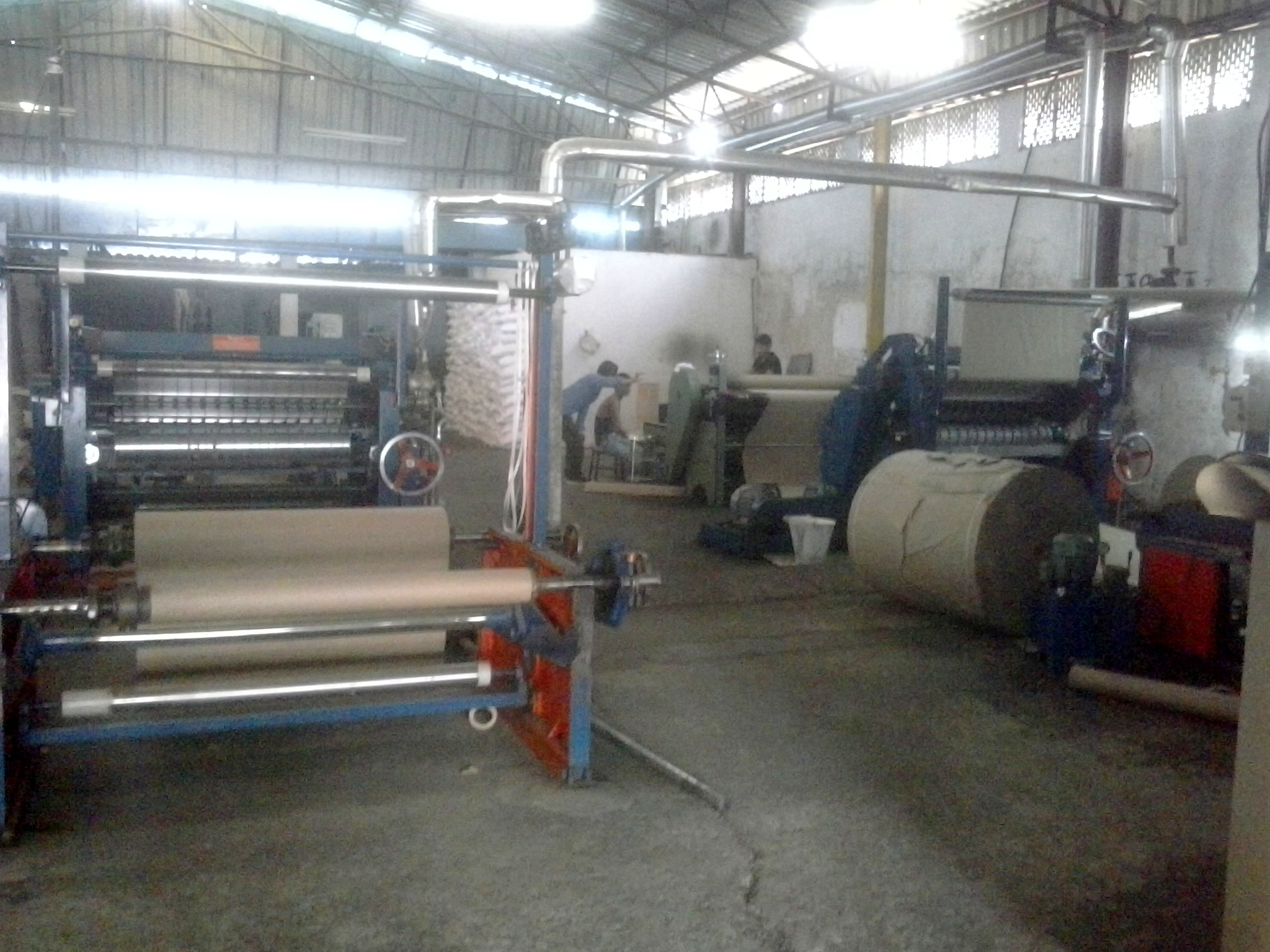 Manufacturing of Corrugated Paperboard at Indore, Madhya Pradesh, India.